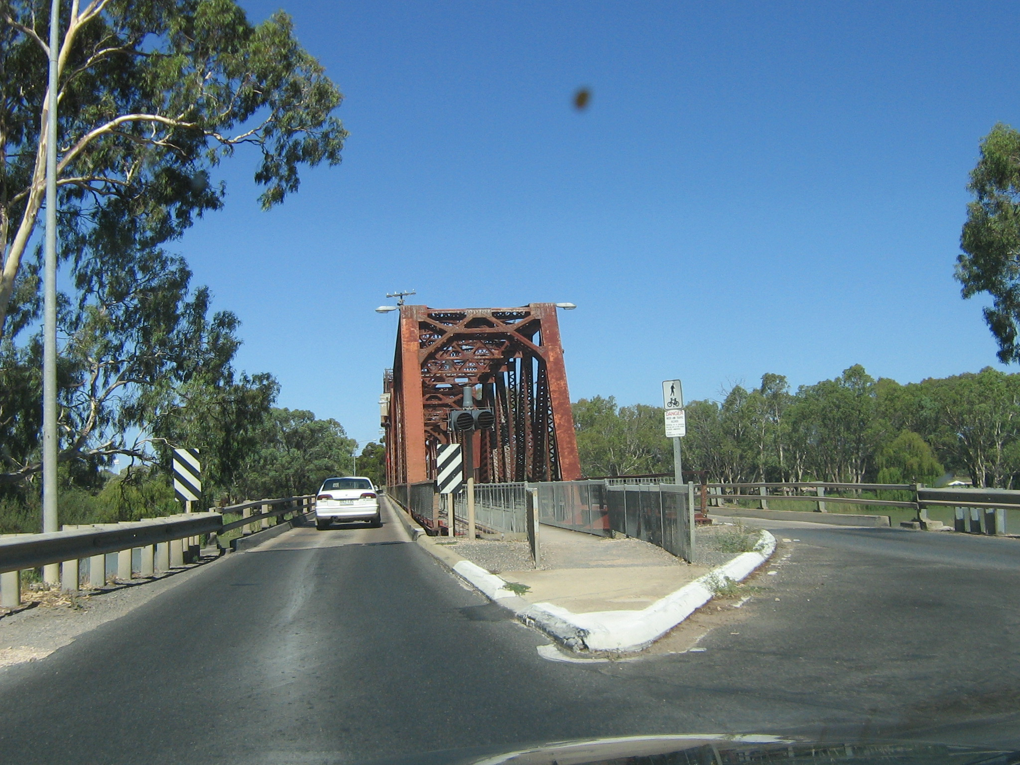 View of the Paringa Bridge carrying the Sturt Highway over the Murray River, approaching from Renmark.